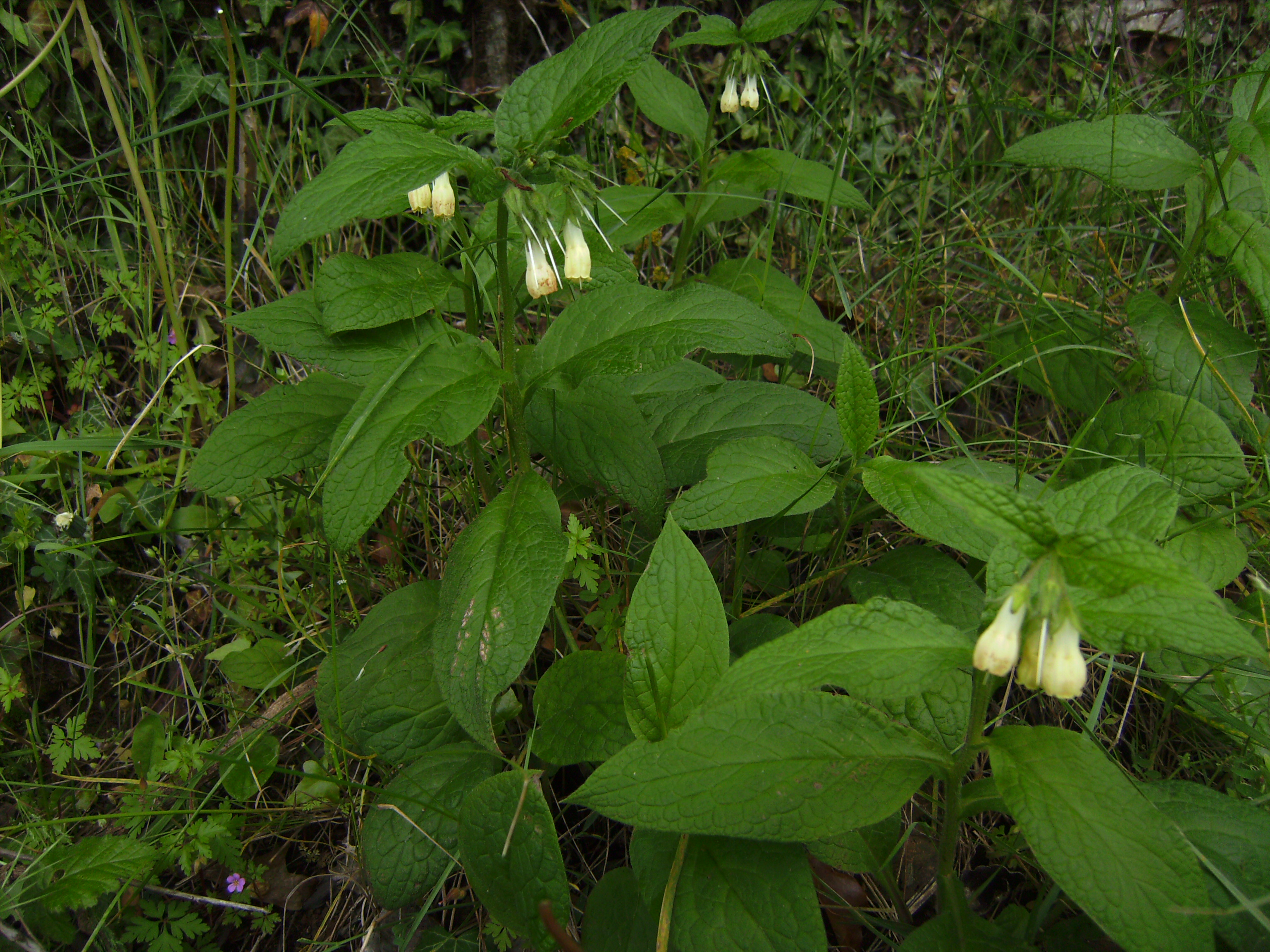 Symphytum tuberosum, Castelltallat, Bages, Catalonia